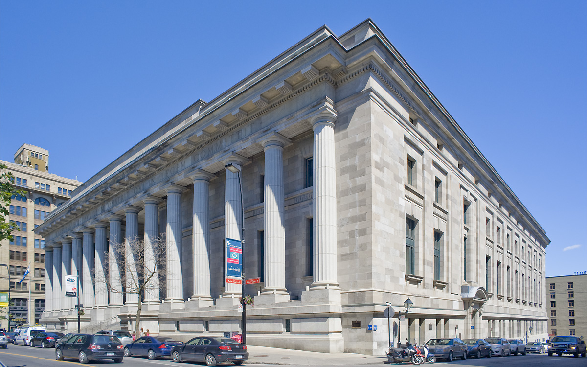 “New” Montréal courthouse building, Ernest Cormier building, Notre-Dame street east